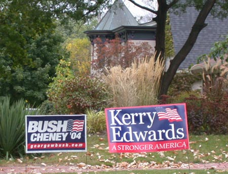 Neighborhing yard signs for George W. Bush and John Kerry in Grosse Pointe, Michigan (taken Sept. 28, 2004)